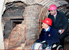 Bruce Cooper and Martin Nuza at the entrance to Operation Tracer (Stay Behind Cave) in Gibraltar. October 2008. The secret doorway of the passage to the chamber is on the left, visible where bricks have been removed.